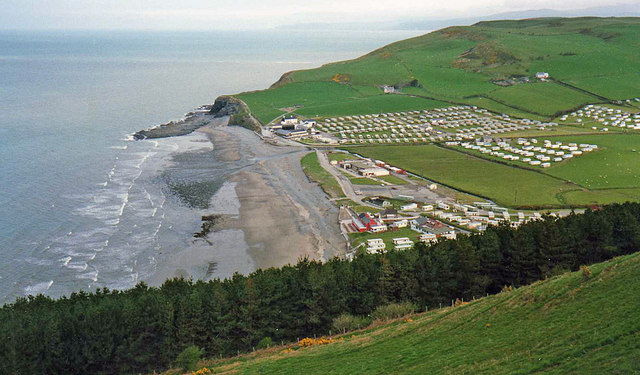 Clarach Bay View north from the public footpath from Constitution Hill. The large caravan park here is very near the beach.